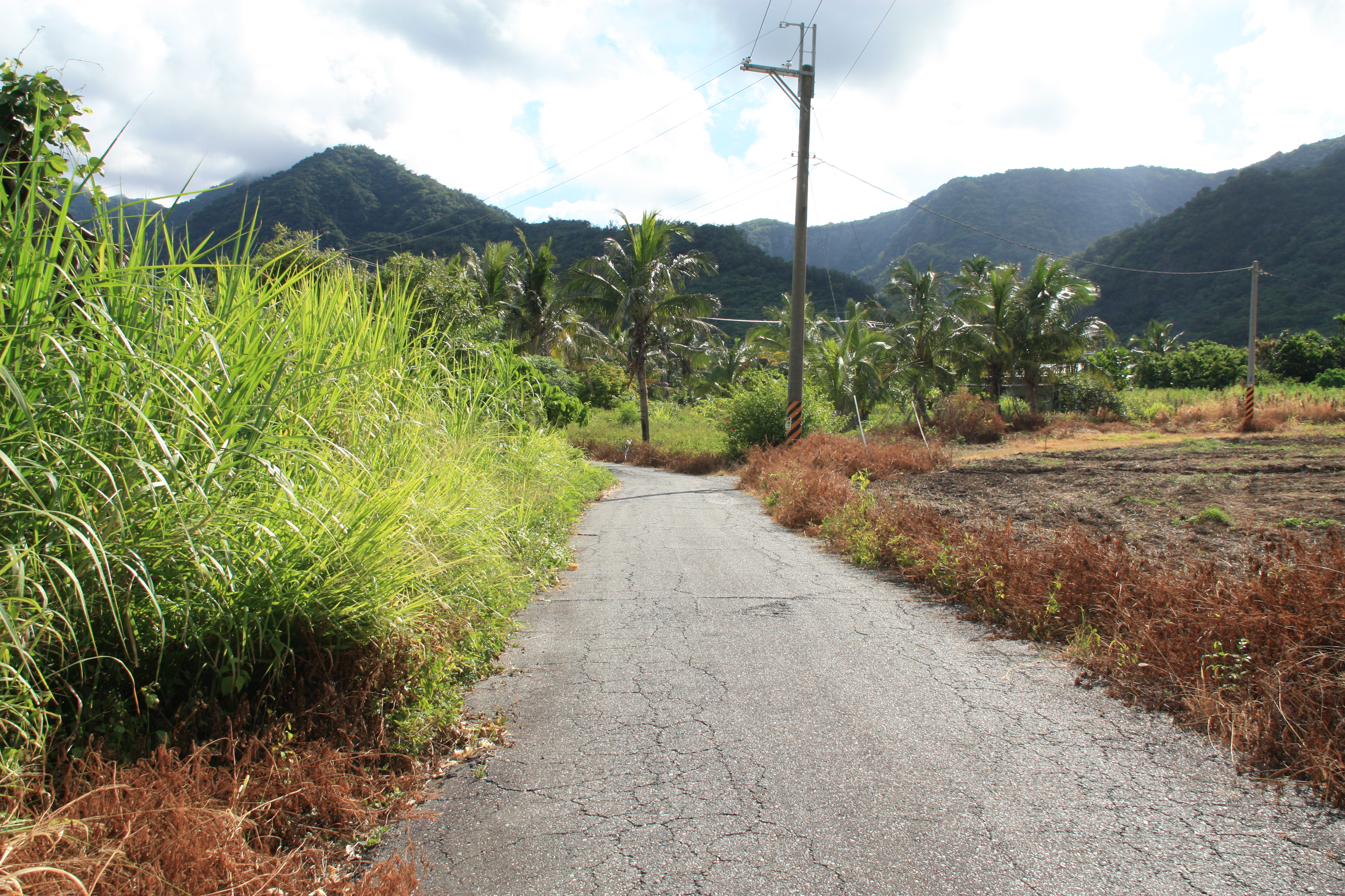 Taitung CountyChenggong Township